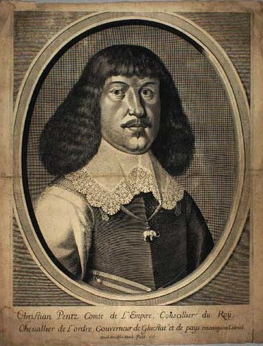 Portarait of the gouvernor of Glückstadt Christian Reichsgraf von Pentz (1600-1657)